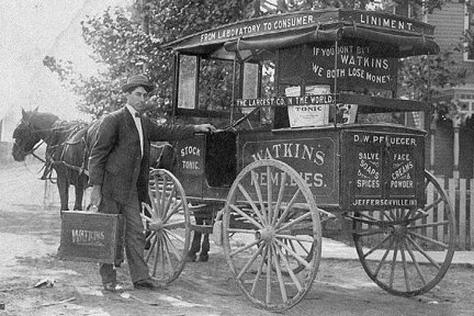 Watkins horse and buggy sales wagon, circa 1900